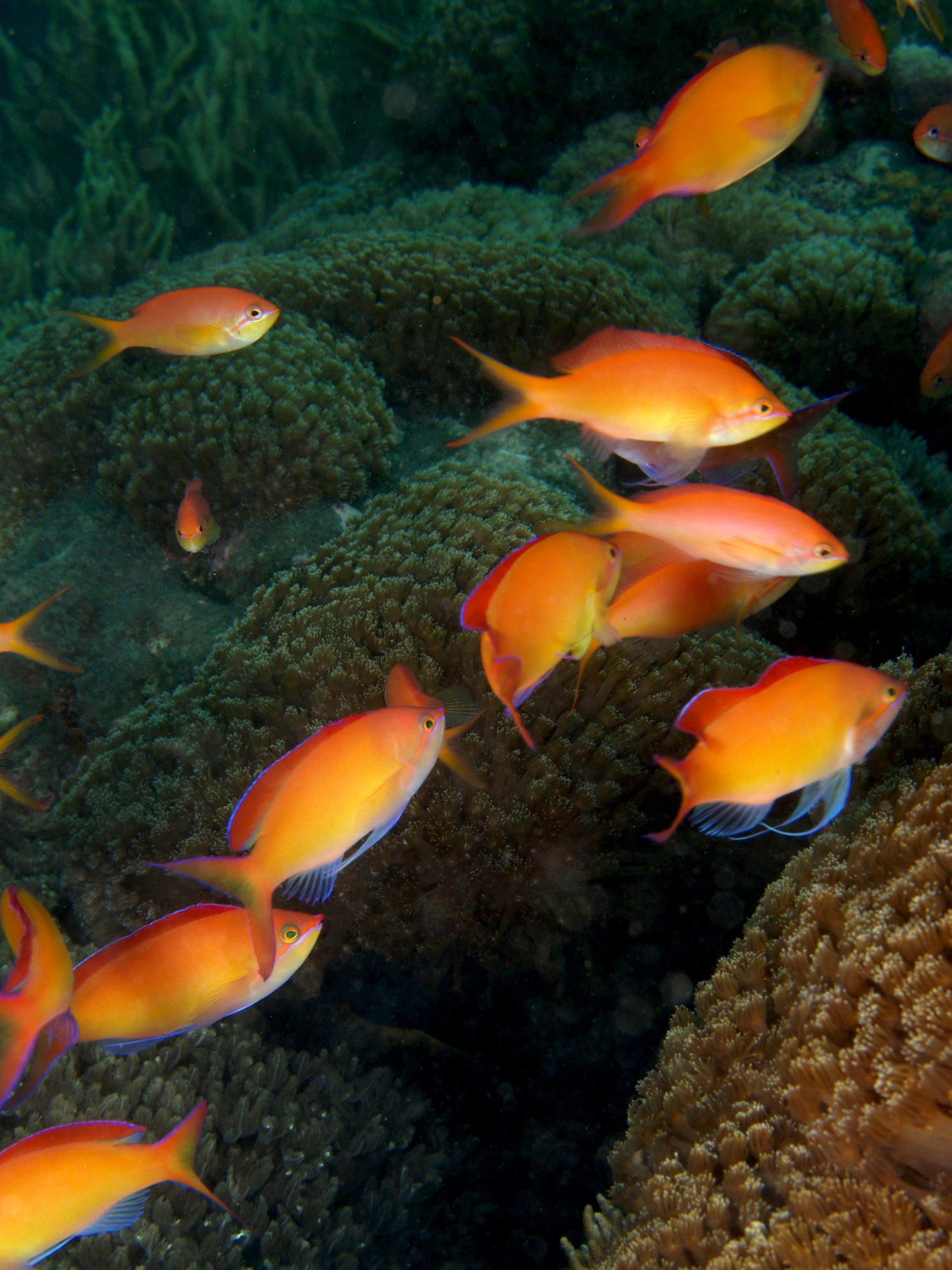 Pseudanthias dispar (Redfin anthias. These fish are often seen in large groups around coral outcroppings.